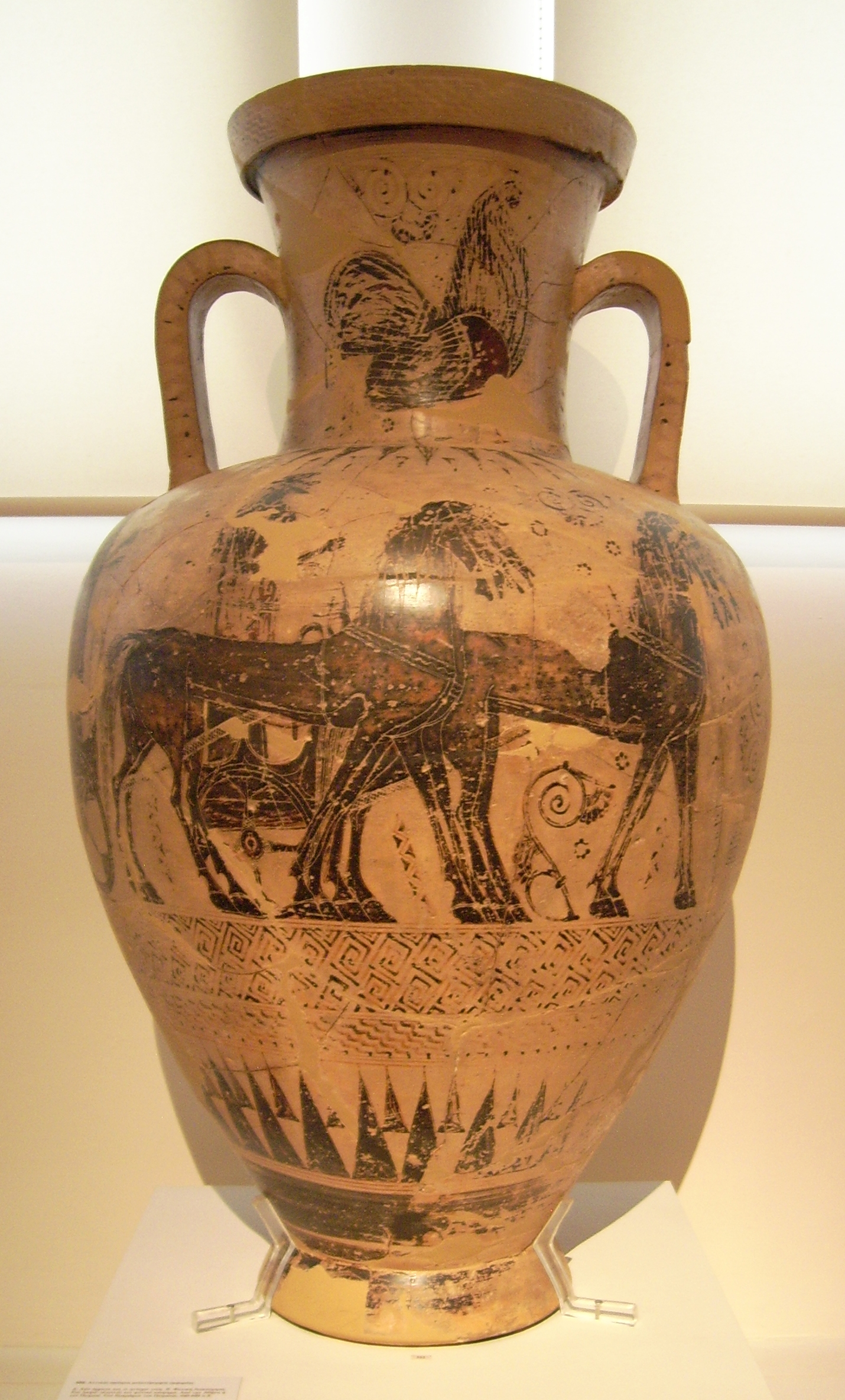 Early black-figure attic Amphora. A-Side Two chariots and their charioteers, B-Side Floral Decoration, Neck cockerel and floral ornament.